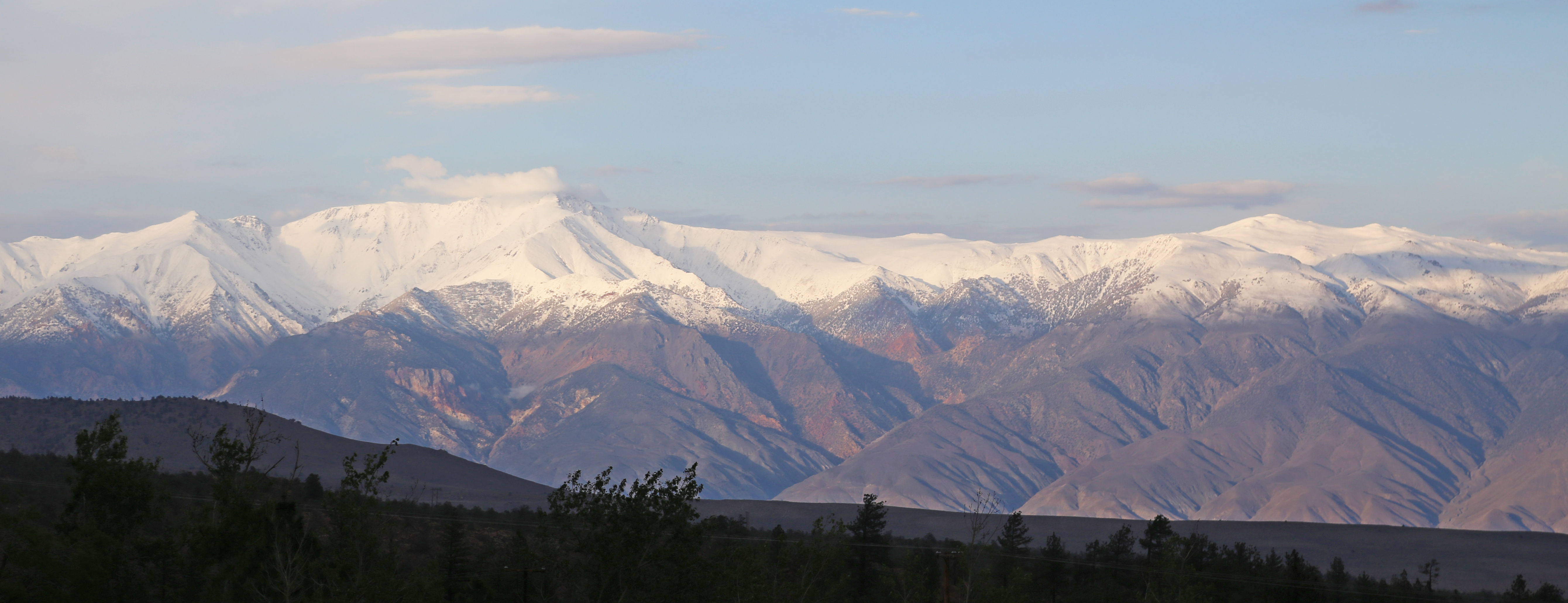 Late, heavy snow on the White Mountains, with a clean horizontal lower edge where it presumably turned to rain instead. Viewed across Owens Valley from the western foothills.